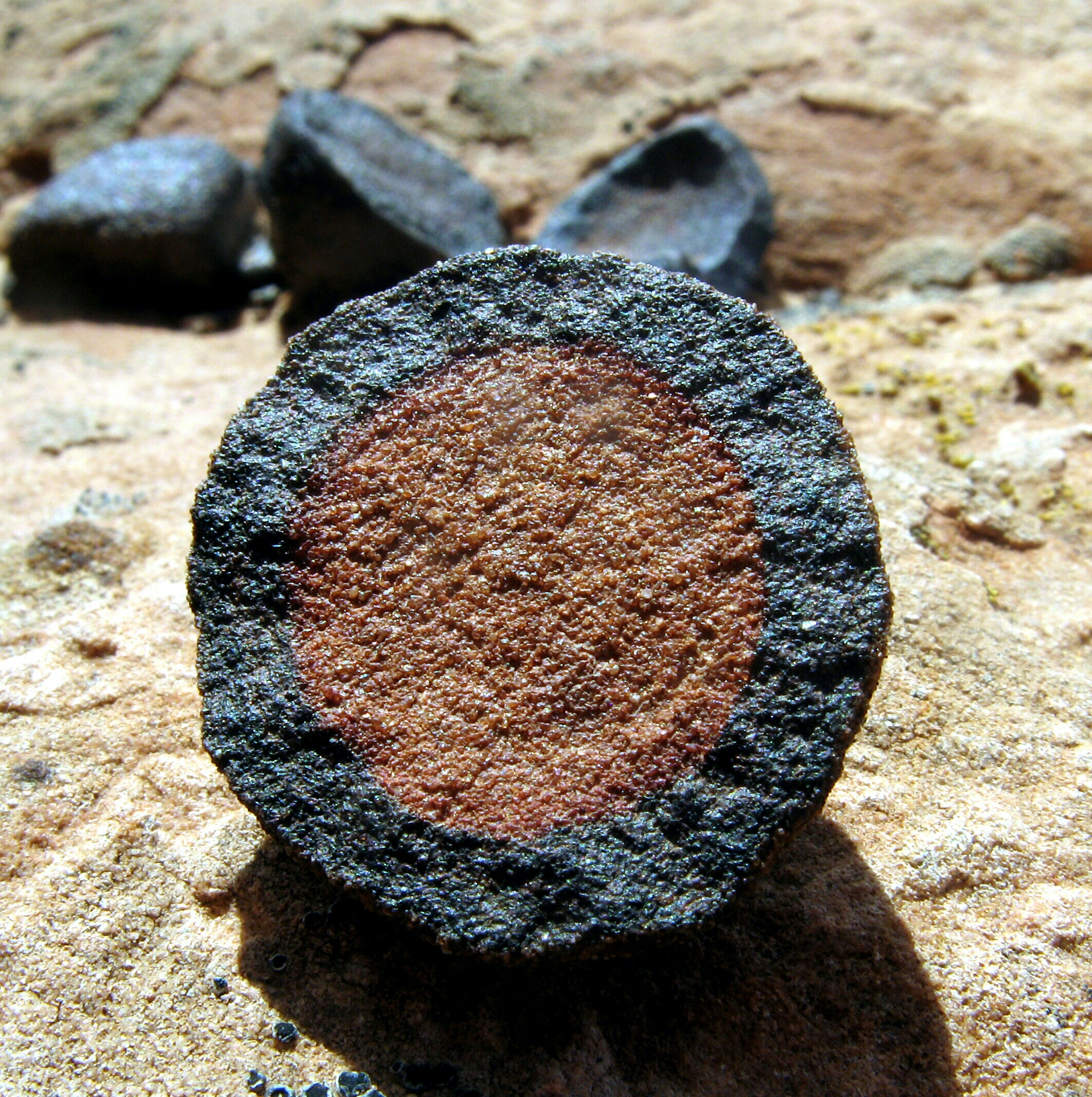 Inside of a Moqui Marble